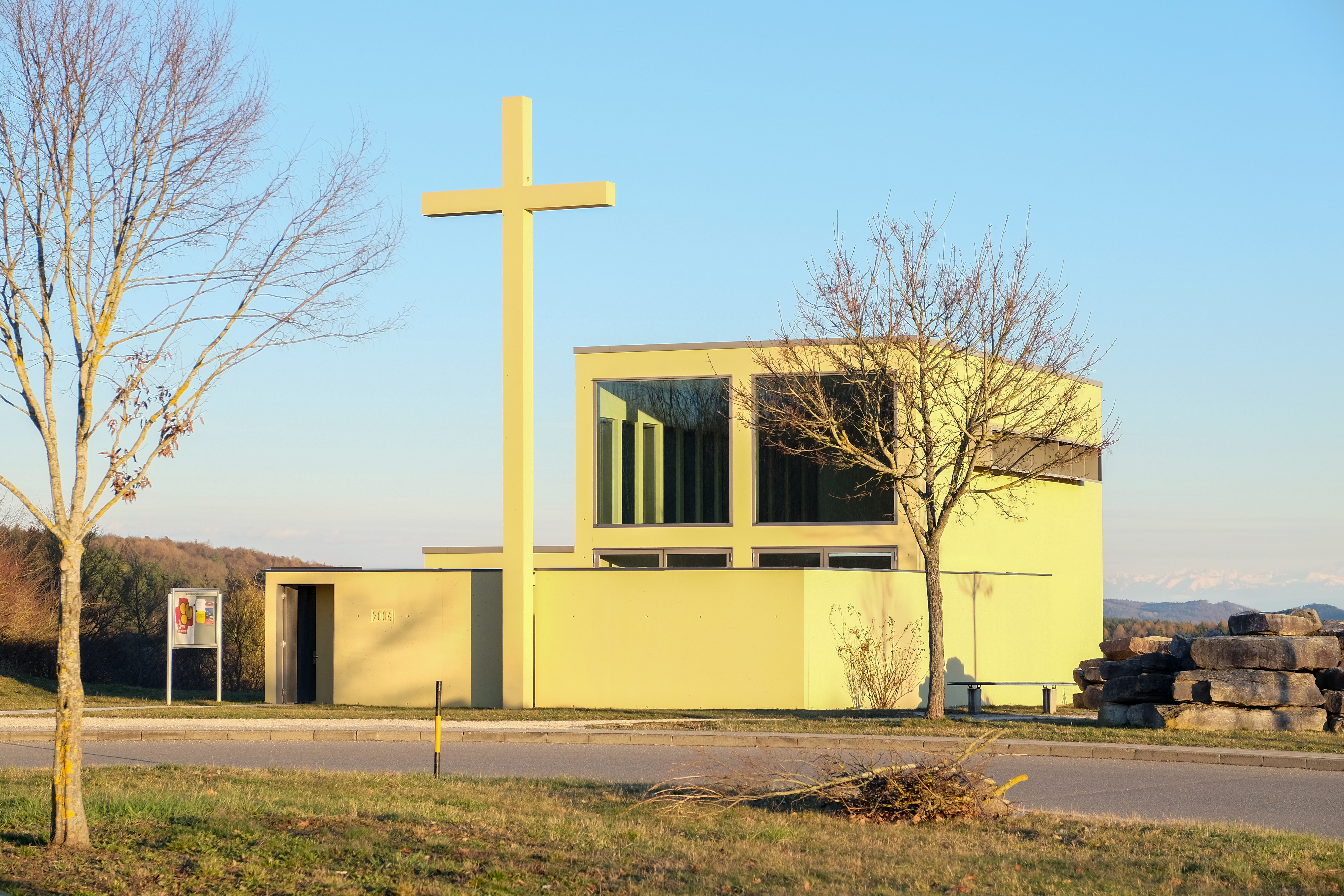 Road church Emmauskapelle, Engen, district Konstanz, Baden-Württemberg, Germany